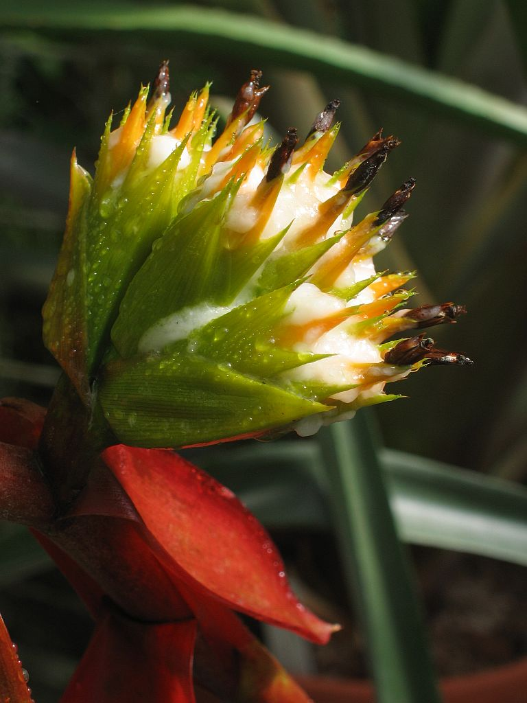 Aechmea aquilega in cultivation at the Botanical Garden of Heidelberg, Germany.